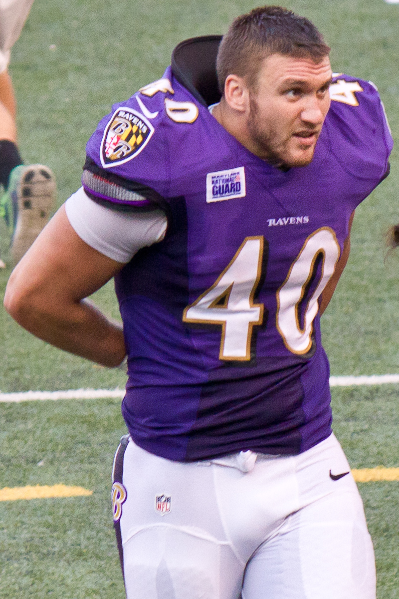 Kyle Juszczyk at Ravens stadium Practice 2013